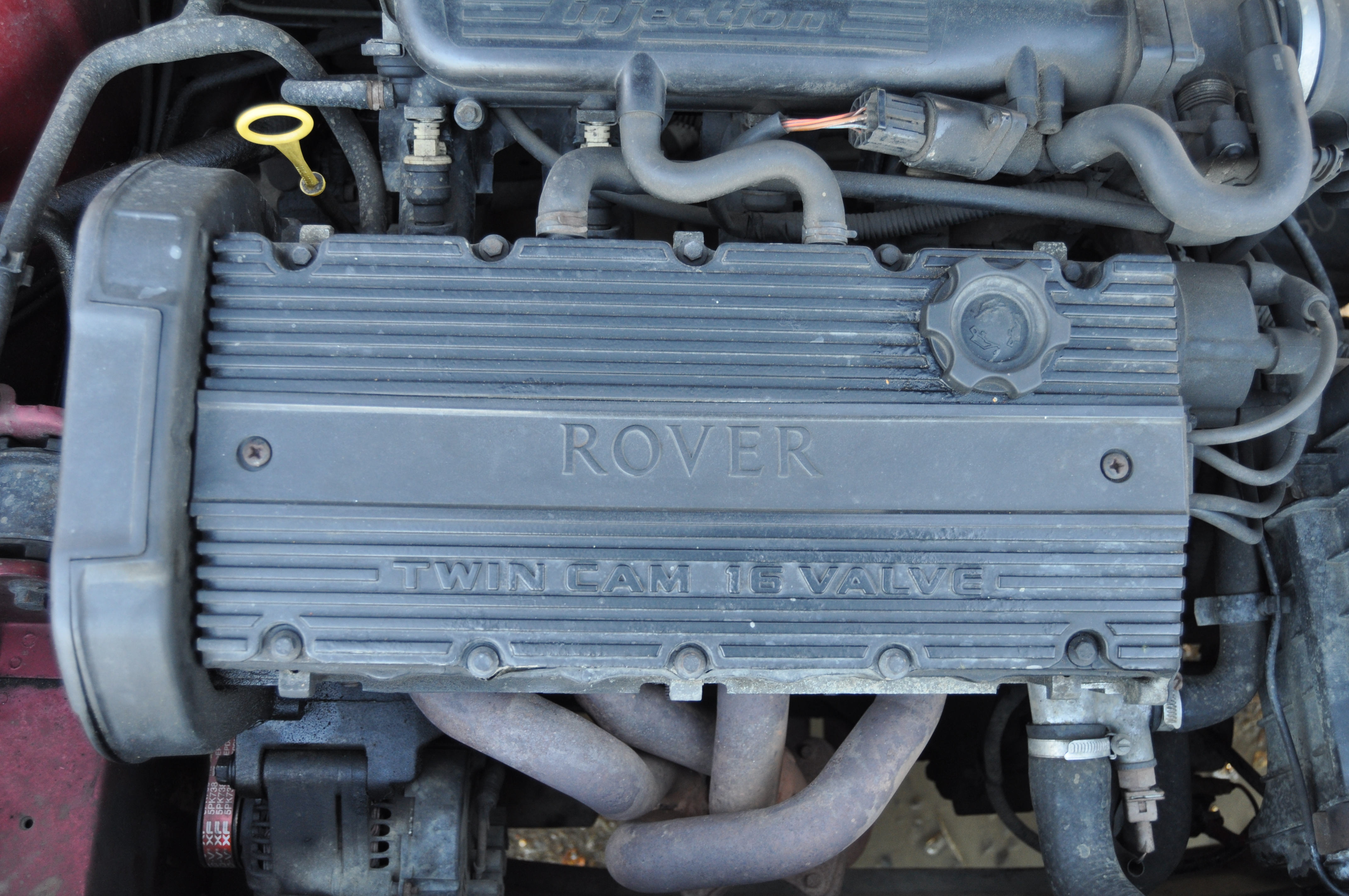 My Rover 214Si engine.